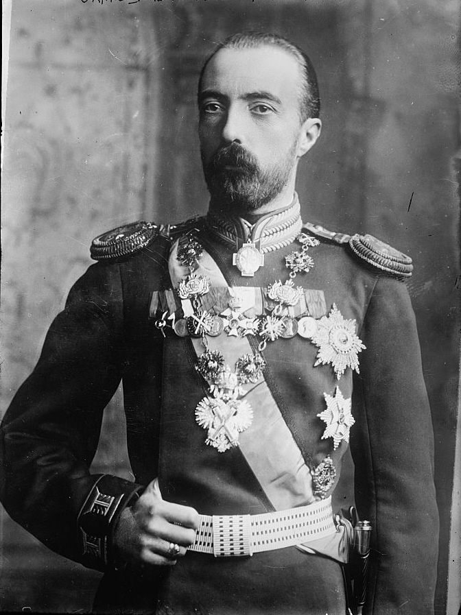 Grand Duke Michael of Russia in uniform